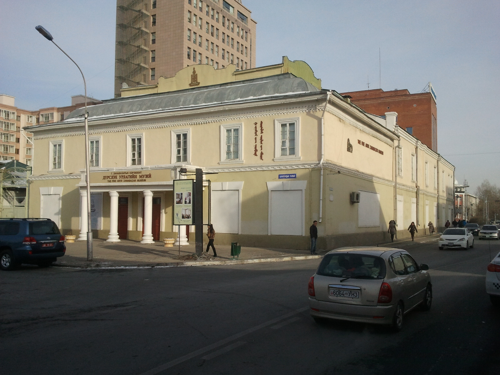 Zanabazar's Fine Arts Museum, built in 1905 by Russian merchant Gudvintsal as a trading shop.